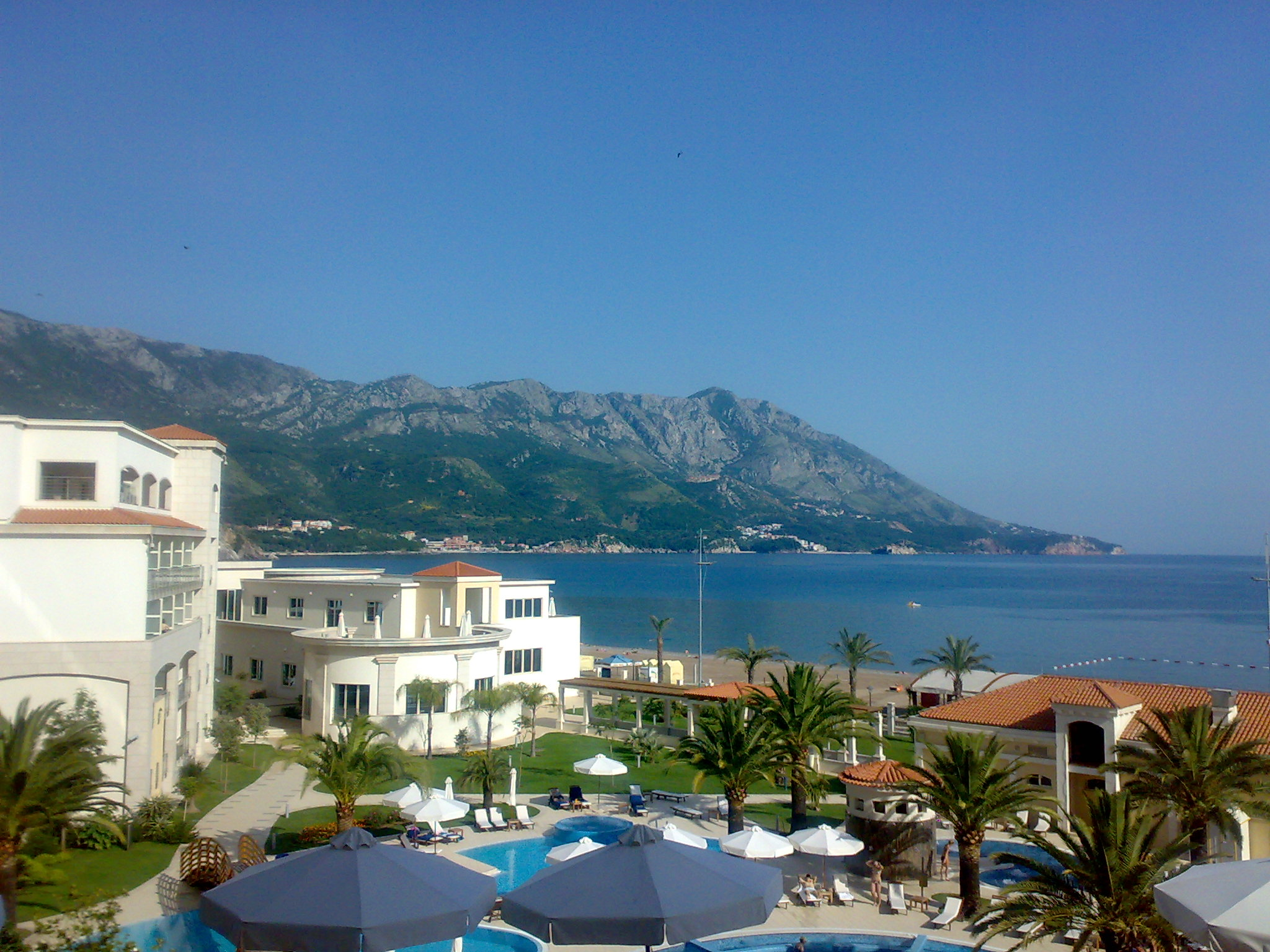 View from Hotel Splendid, Becici, Budva municipality, Montenegro